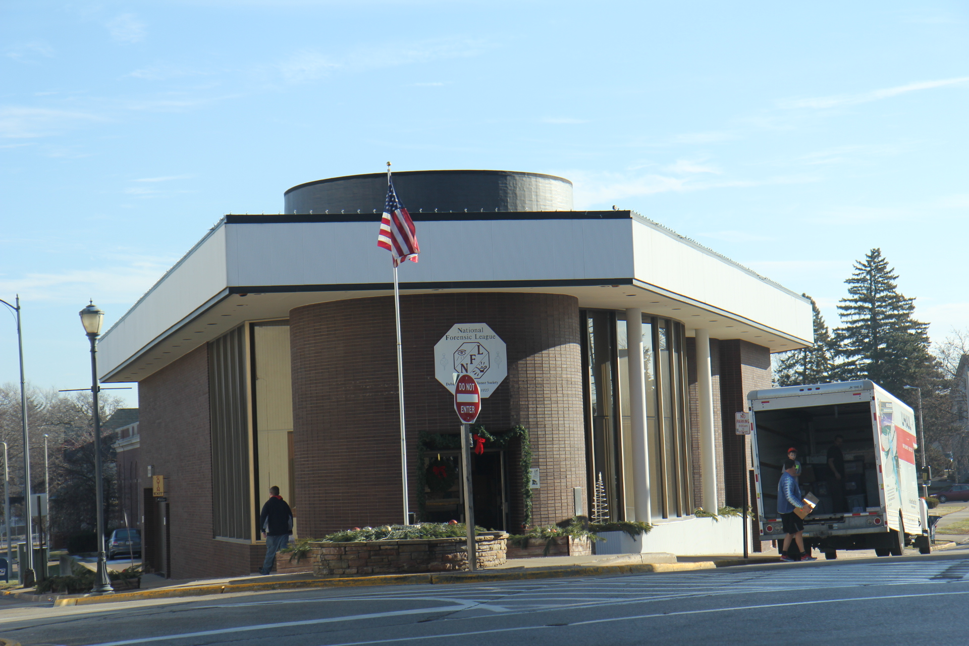 The headquarters for the National Speech and Debate Association, formerly the National Forensics League (as signed), in Ripon, Wisconsin.